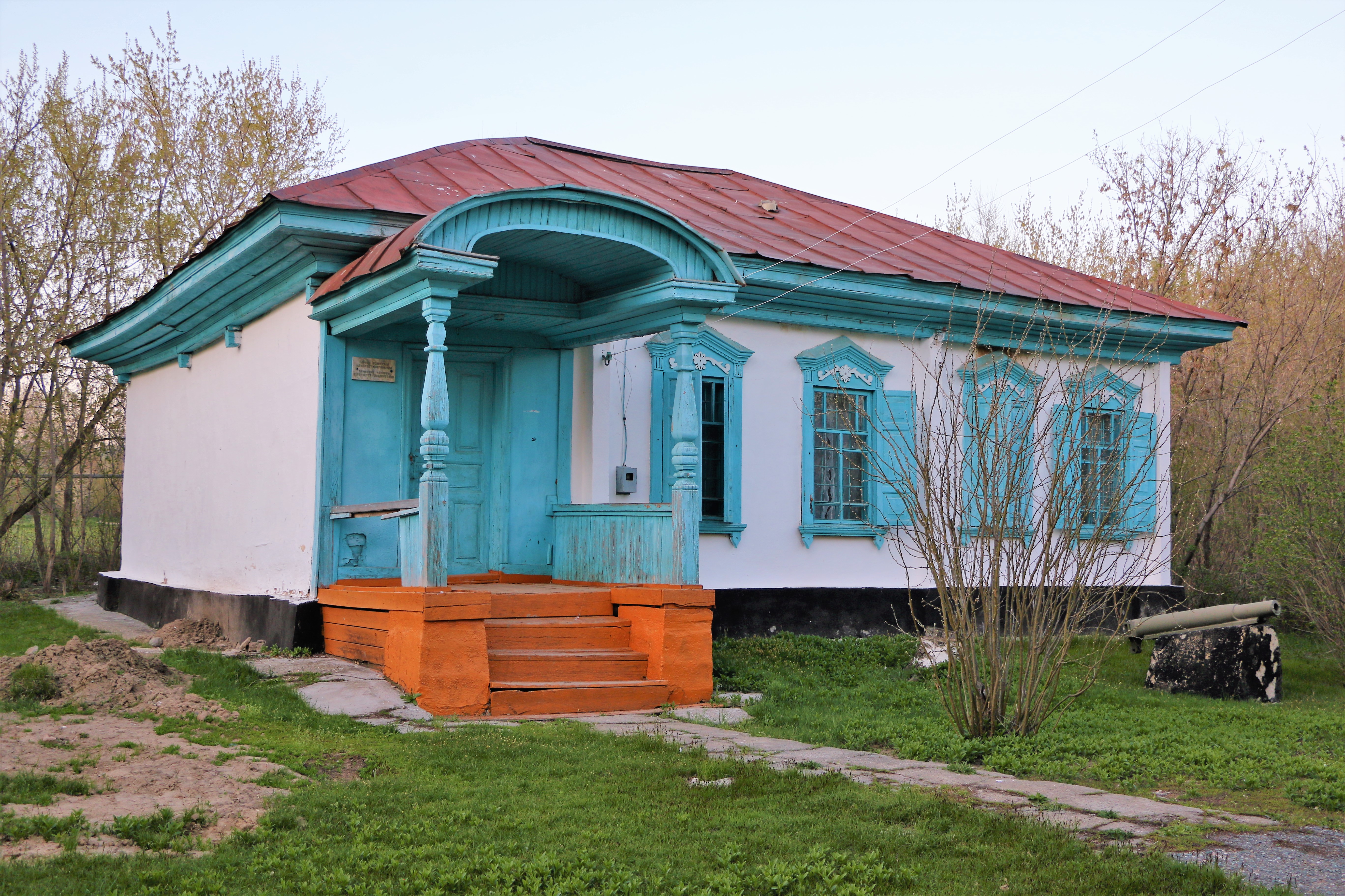 Cherkassk Defence Museum